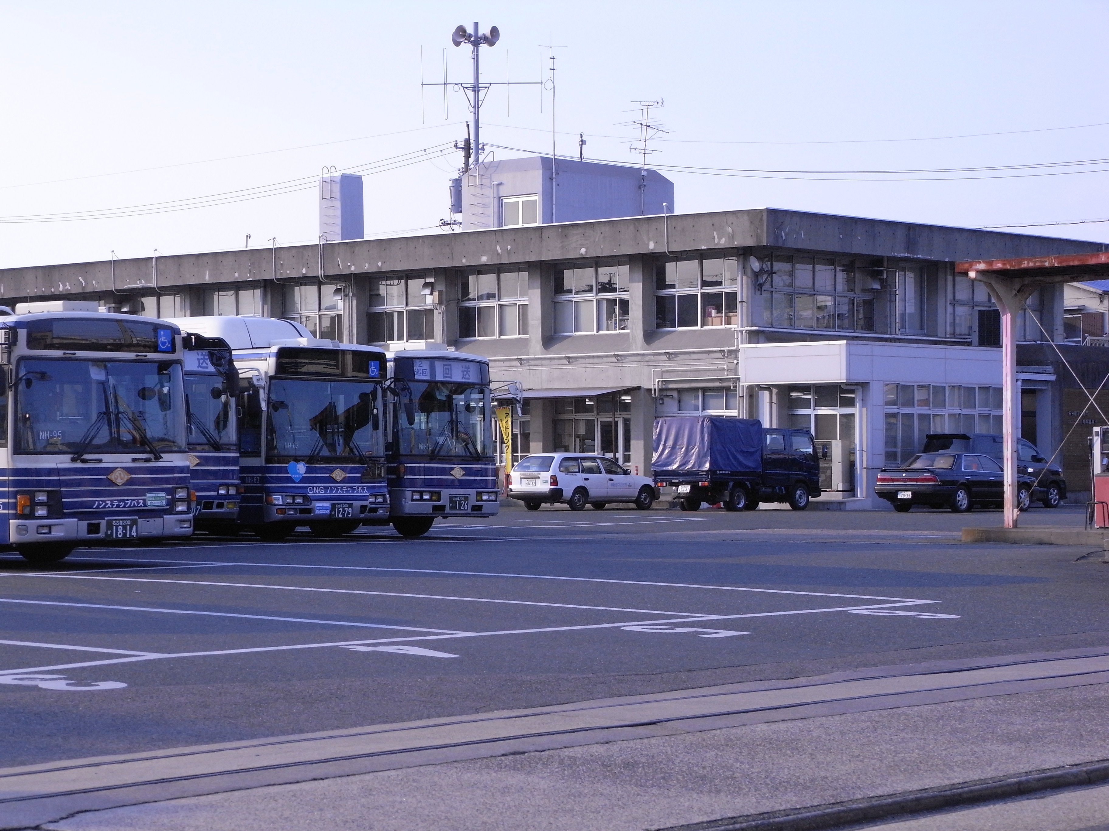 Nagoya City Bus Naruo Depot